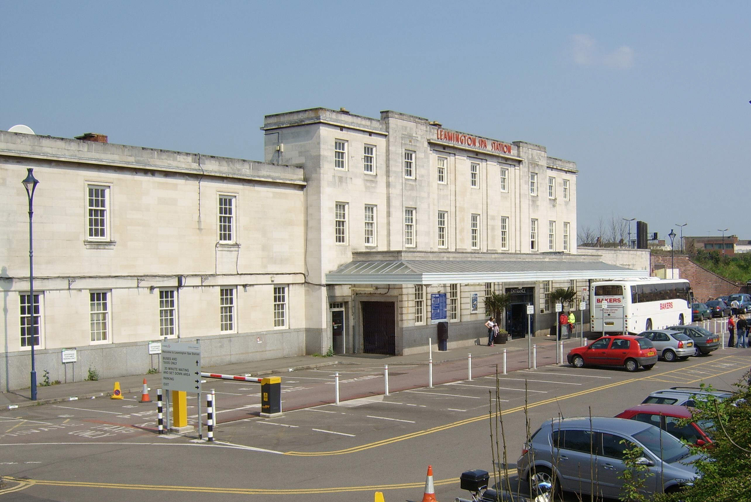 Exterior view of Leamington Spa railway station.